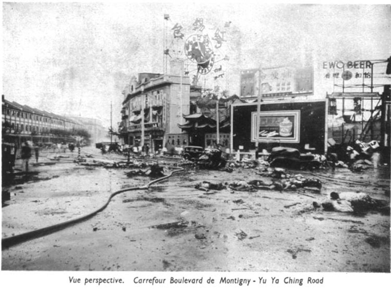 The August 14th bombing in front of the Great World